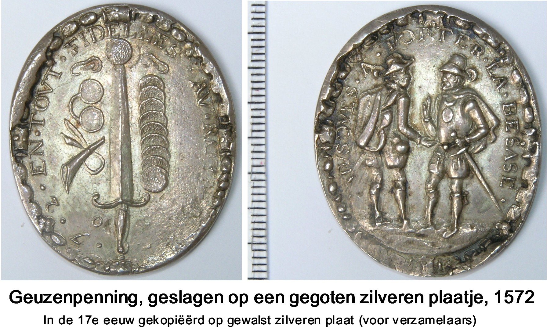 Silver Geuzenpenning coin from 1572.